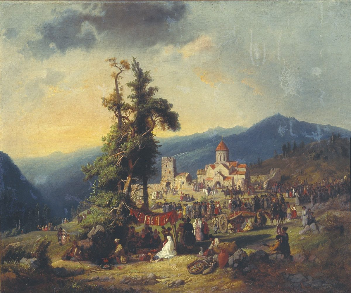 Religious festival in Manglisi. A painting by Konstantin Filippov, c. 1871. Oil on canvas, 61 х 73.5 cm. Pushkin State Museum, Moscow.